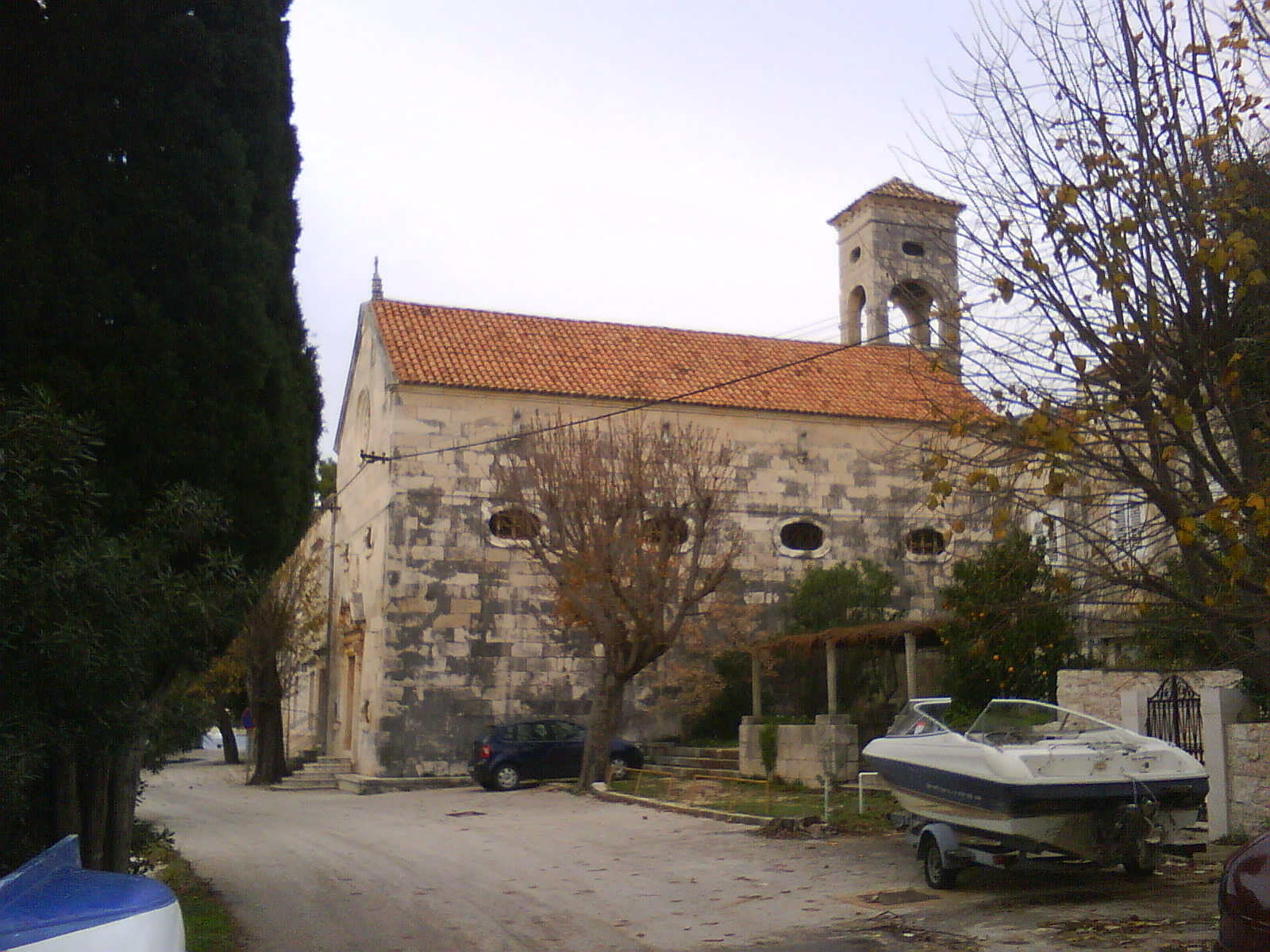 Roman Catholic church in Viganj center